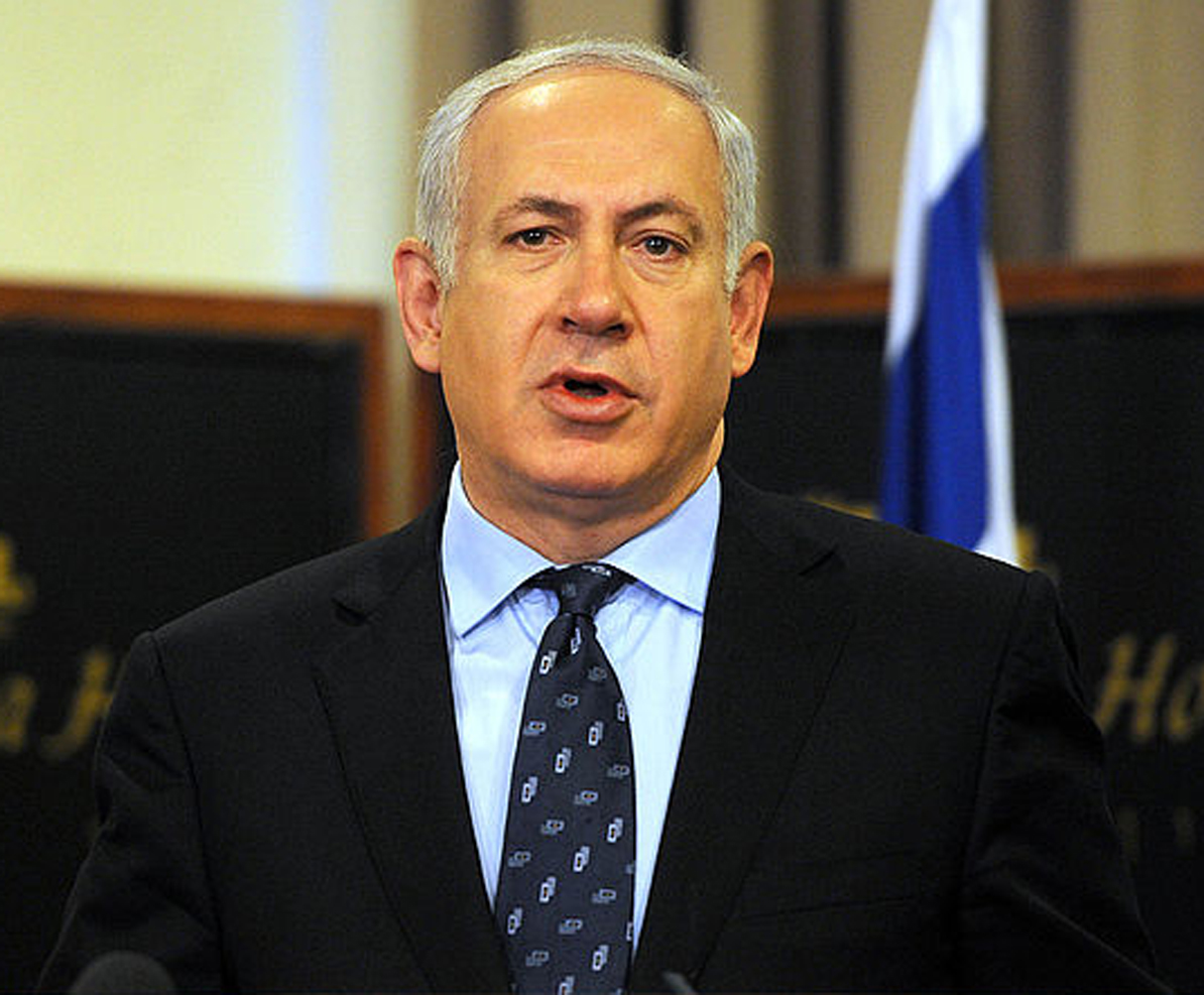 Israeli Prime Minister Benjamin Netanyahu and U.S. Defense Secretary Robert M. Gates, not pictured, conduct a press conference at the Dan Cesarea Hotel in Israel, March 25, 2011.